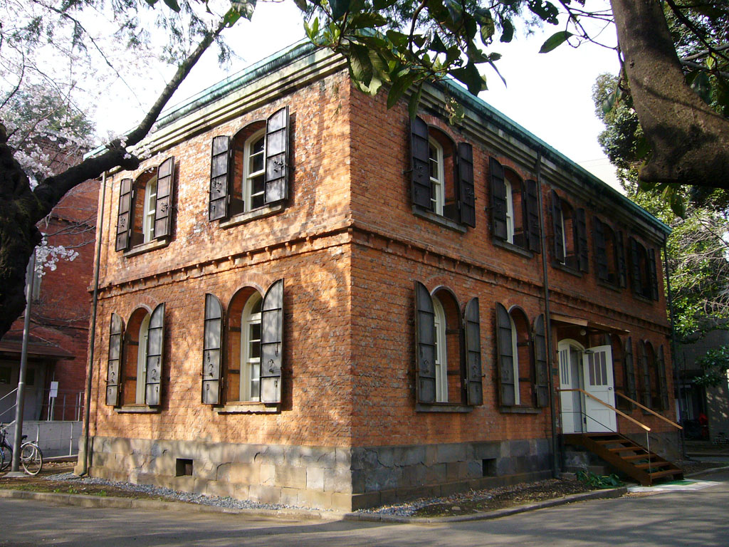 Tokyo National University of Fine Arts and Music, Tokyo, Japan